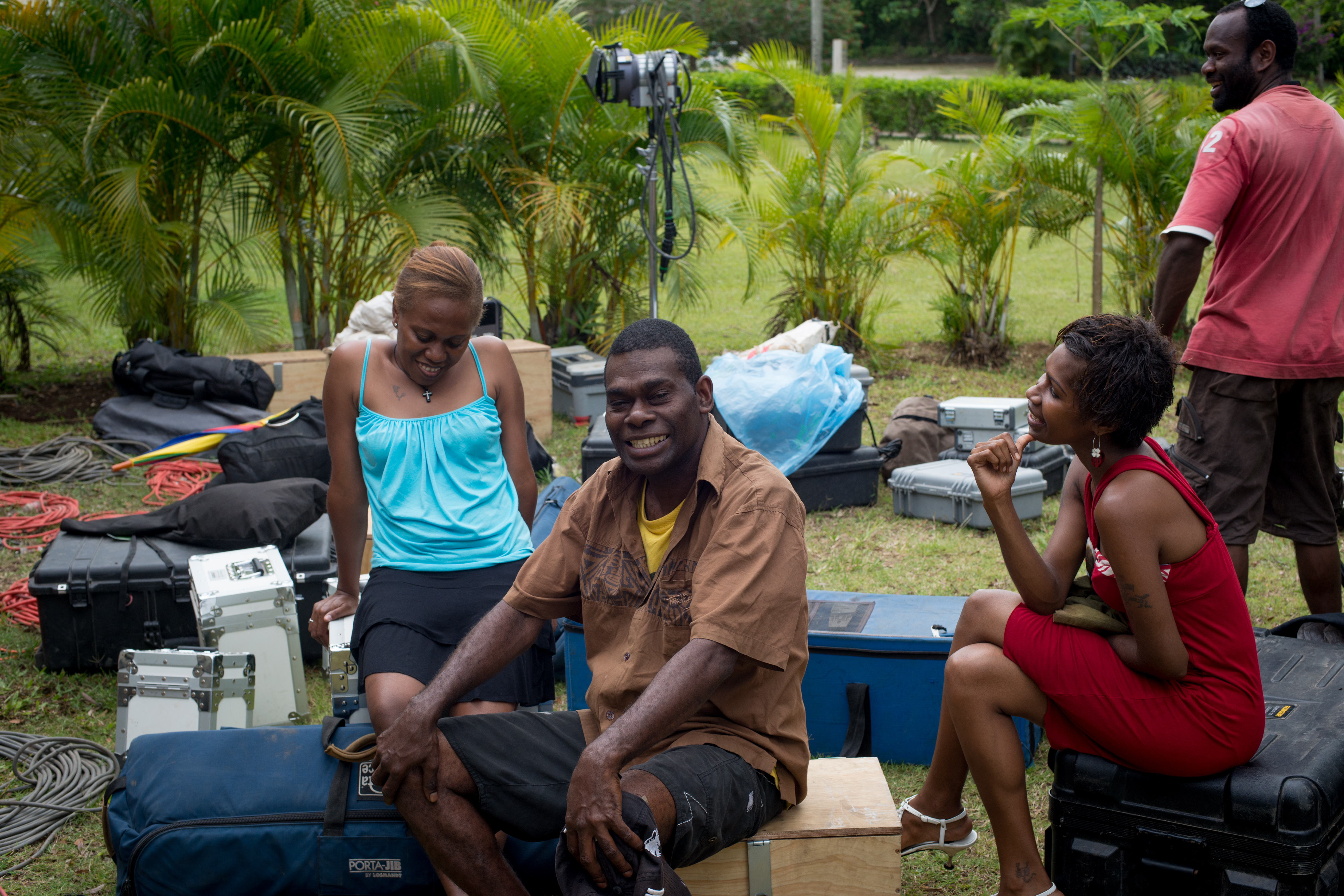 On the set of Love Patrol; a ni-Vanuatu soap opera produced by the Wan Smolbag Theatre.